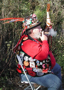 Member of E Clampus Vitus Chapter 1.5 and founder of Chapter .75 -- the Elephant Temperance Society.